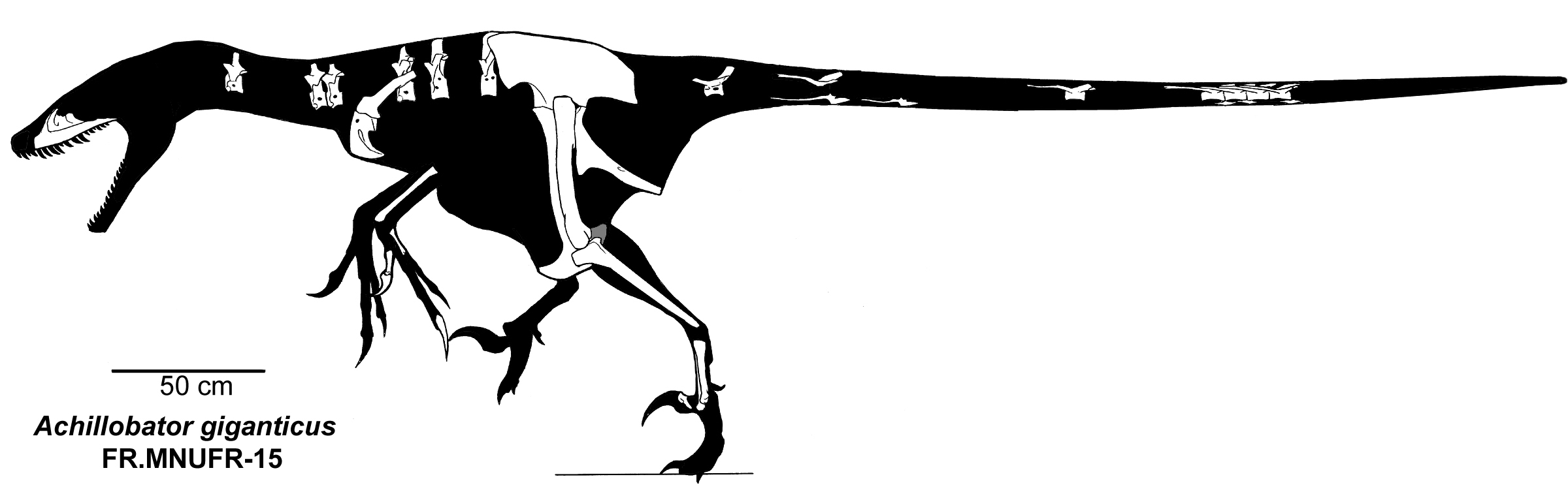 Achillobator giganticus.